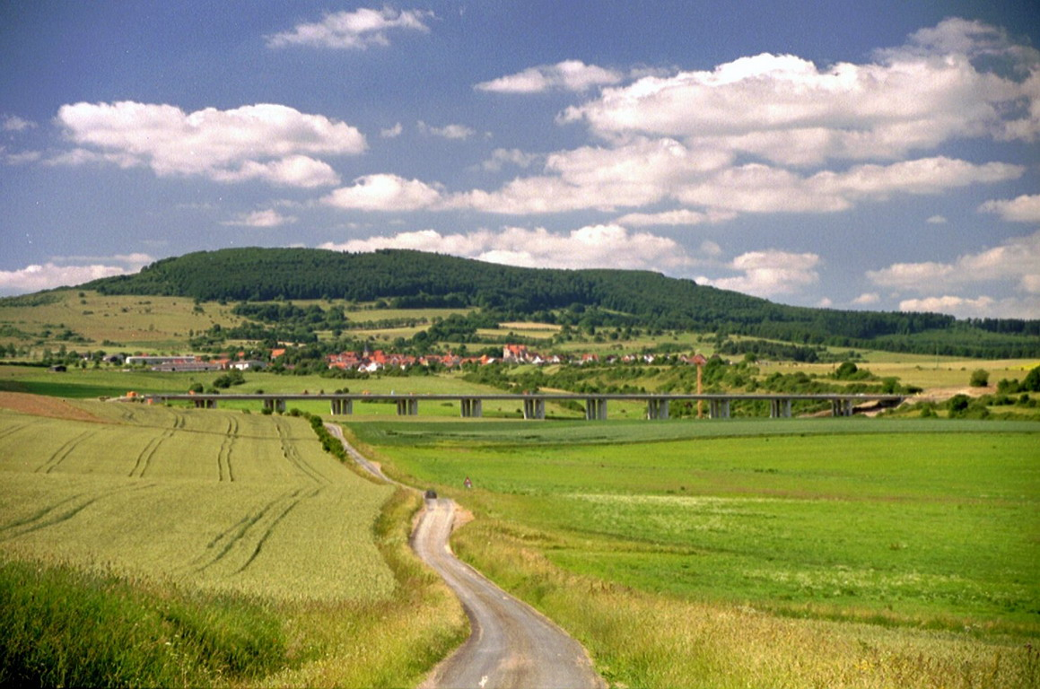 Motorway Bridge "Rotes Tal" (Red Valley) with Kühndorf and the mountain "Dolmar" in South West Thuringia